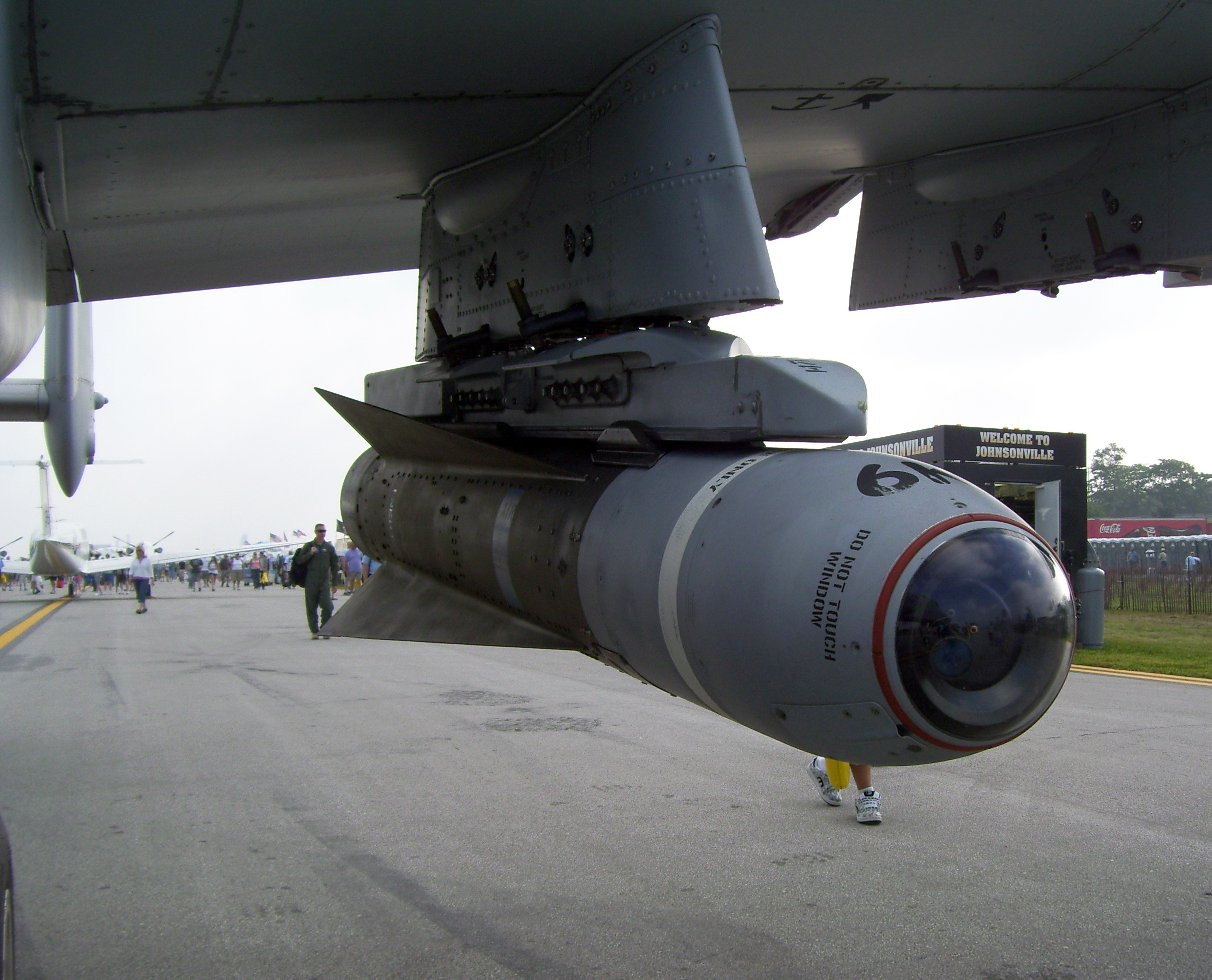 An inert AGM-65 Maverick loaded on an A-10 Thunderbolt II